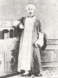 Ng Choy (Chinese: 伍才; referred to otherwise as Wu Tingfang based on 伍廷芳, Pinyin: Wŭ Tíngfāng, Wade-Giles: Wu T'ing-fang) (1842 in Singapore – 23 June 1922) was a Chinese diplomat and politician who served as Minister of Foreign Affairs and briefly as Acting Premier during the early years of the Republic of China.